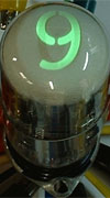 Nimo CRT display tube BA0000-P31 made by IEE, showing digit 9.